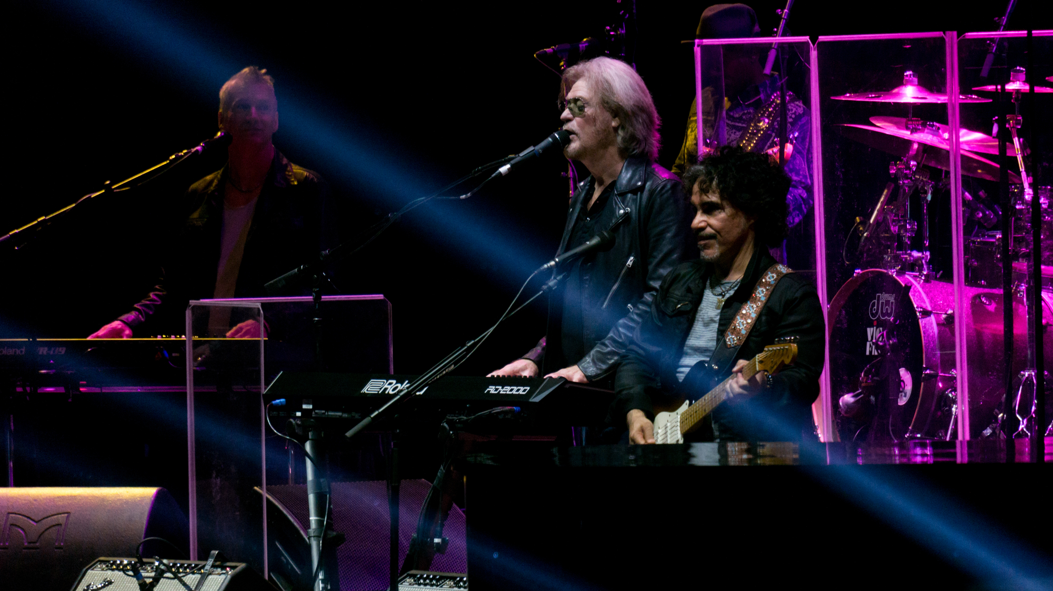 HallOatesO2281017-54